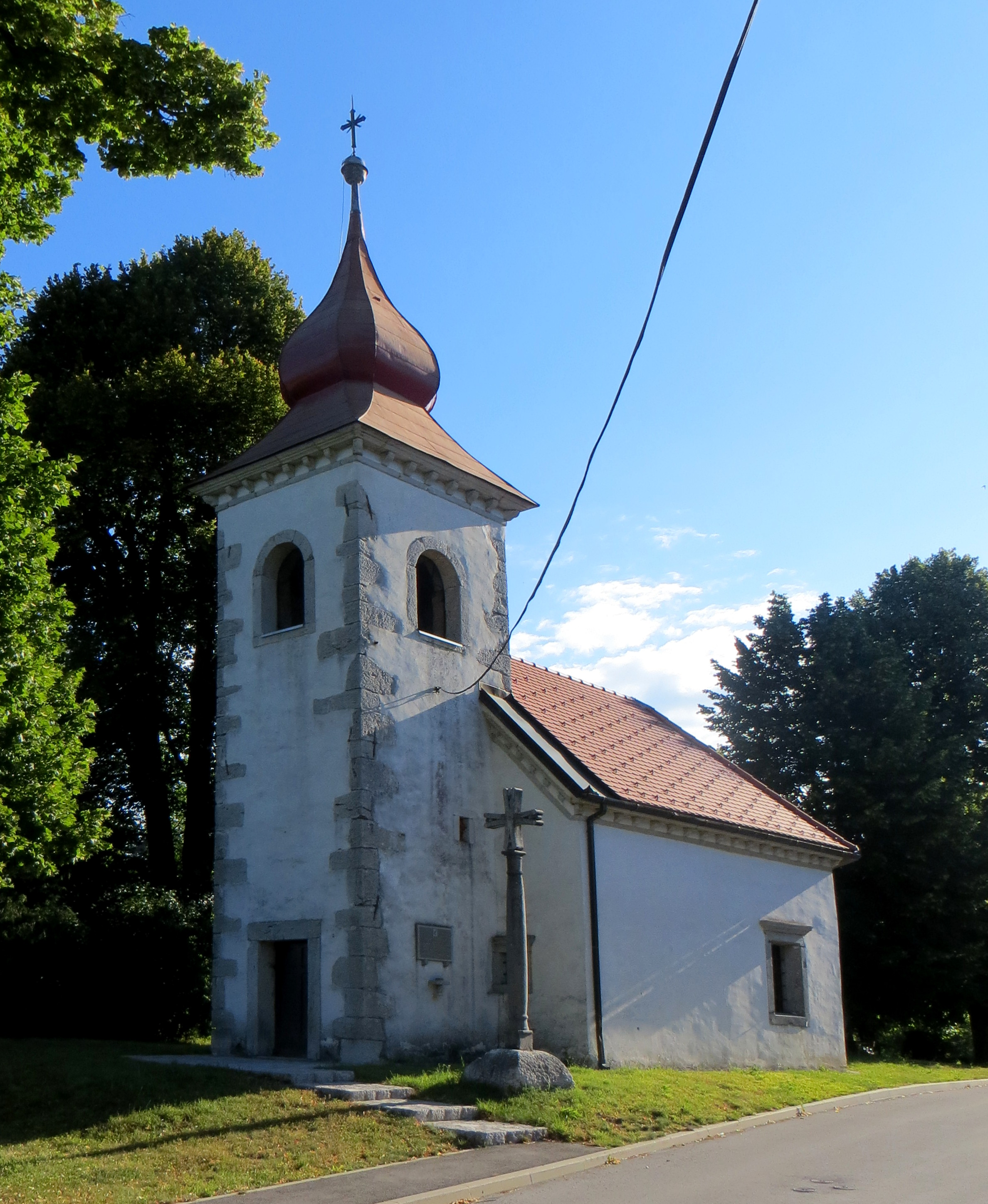 Betrothal of Mary Church in Rakitna, Municipality of Postojna, Slovenia